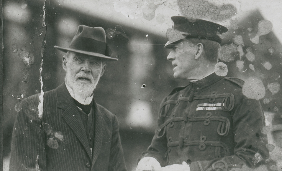 Ex-Police Commissioner W.H. Raymond and current Police Commissioner Brig. Gen. Raymond Lionel Leane